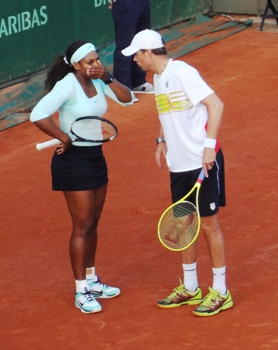 Williams returned to mixed doubles action for the first time since the 1999 Australian Open at the 2012 French Open with Bob Bryan.